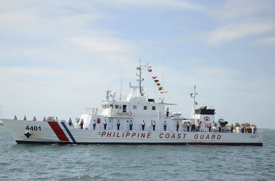 BRP Tubbataha arriving for MARPOLEX 2017